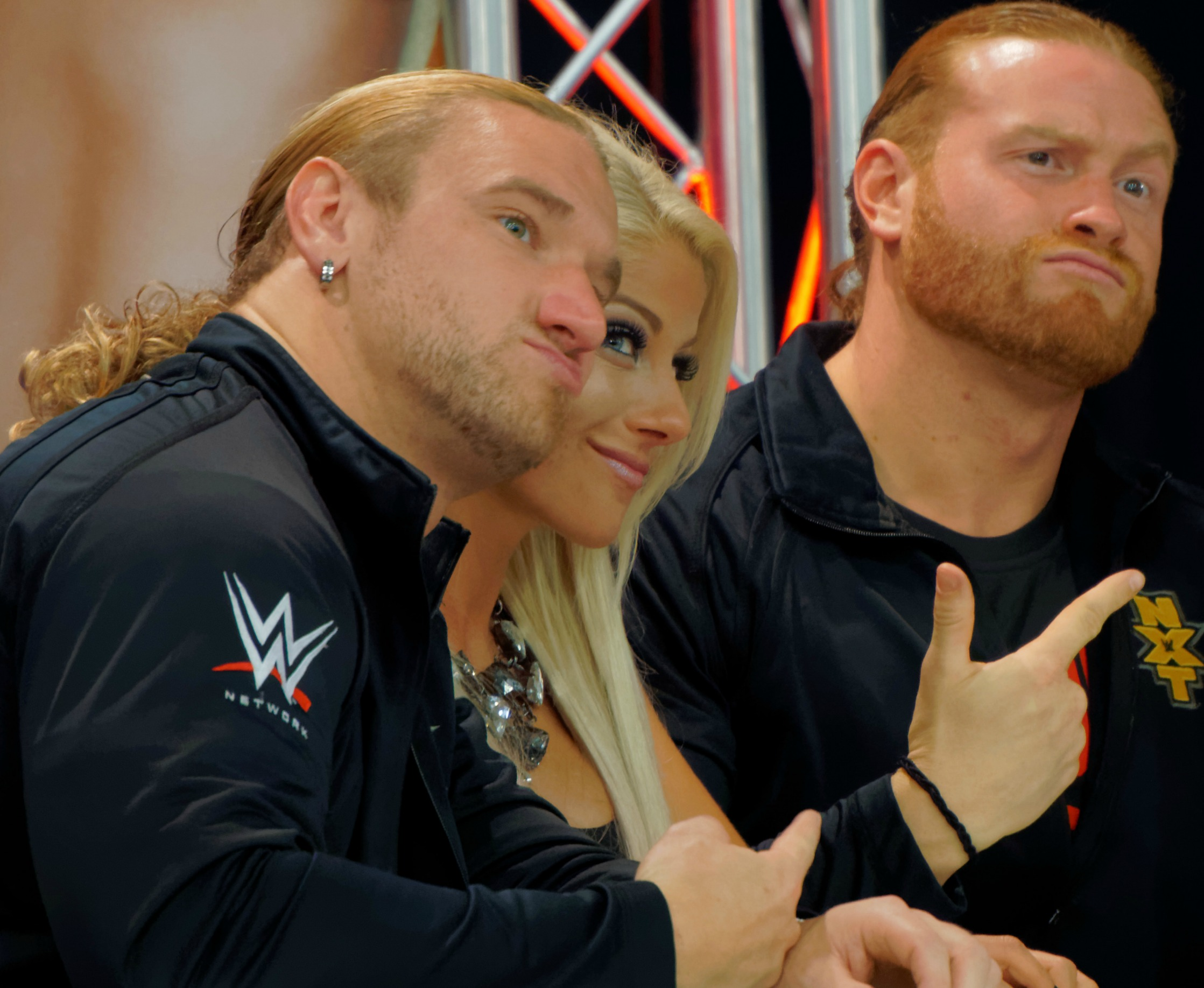 Blake, Murphy and Alexa Bliss during the WrestleMania 32 Axxess in April 1, 2016.